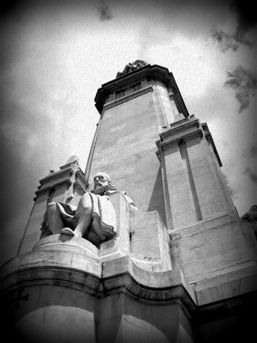 A Black and White Photo of the Cervantes Monument in Madrid Spain the below text is from the english wikipedia Plaza de España (or "Spain Square" in English) is a large square, and popular tourist destination, located in central Madrid, Spain, at the western end of the Gran Vía. It features a monument to Miguel de Cervantes Saavedra, and is bordered by two of Madrid's most prominent skyscrapers. Also, the Palacio Real (Royal Palace) is a short walk south from the plaza. Cervantes Monument ------- In the center of the plaza is a monument to Spanish novelist, poet and playwright Miguel de Cervantes Saavedra, designed by architects Rafael Martínez Zapatero and Pedro Muguruza and sculptor Lorenzo Coullaut Valera. Most of the monument was built between 1925 and 1930. It was finished between 1956 and 1957 by Federico Coullaut-Valera Mendigutia, the son of the original sculptor. The tower portion of the monument includes a stone sculpture of Cervantes, which overlooks bronze sculptures of Don Quixote and Sancho Panza. Next to the tower, there are two stone representations of Don Quixote's "true love", one as the simple peasant woman Aldonza Lorenzo, and one as the beautiful, imaginary Dulcinea del Toboso.